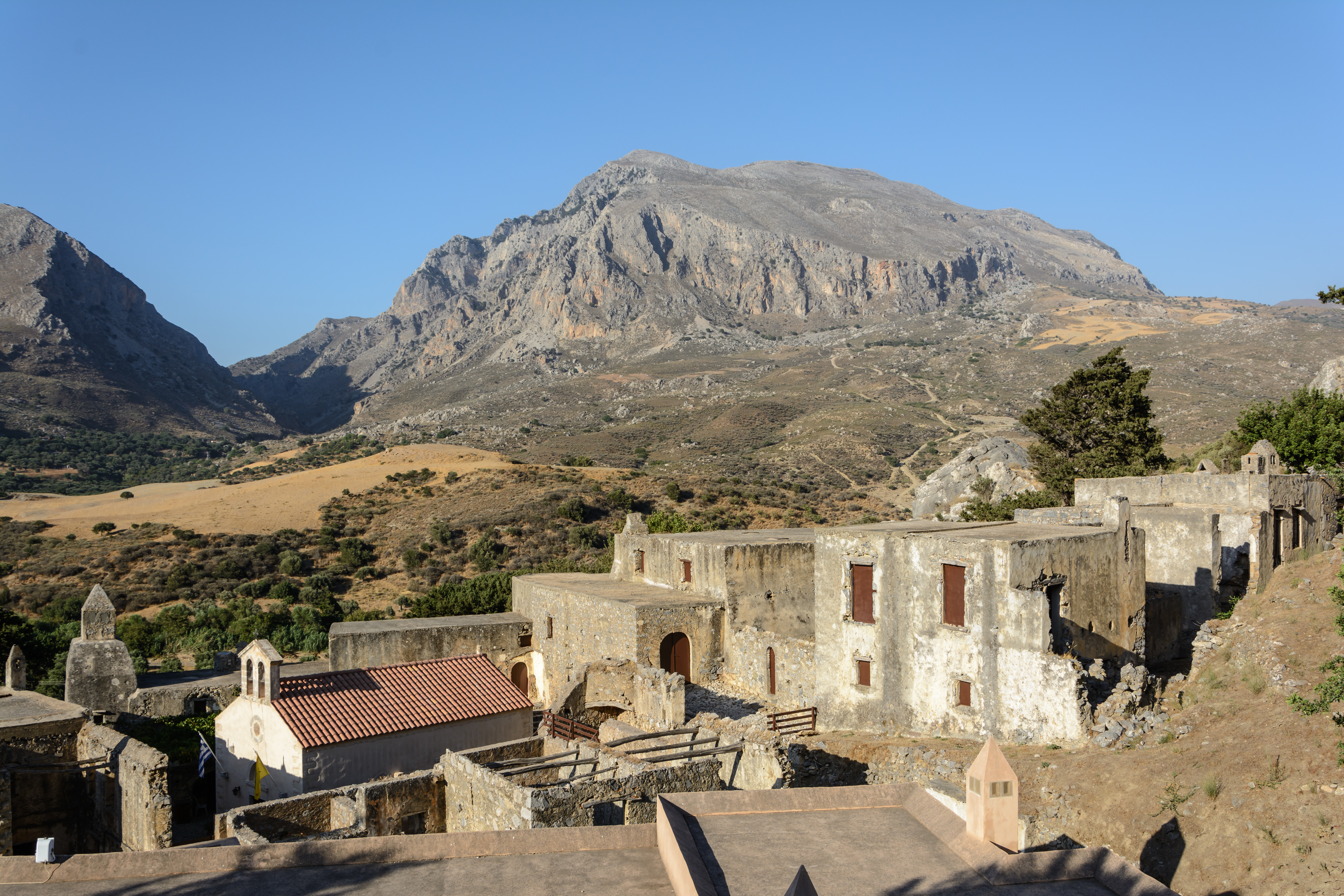 Ruins of the Old or Lower Preveli Monastery (Kato Moni Preveli), Crete